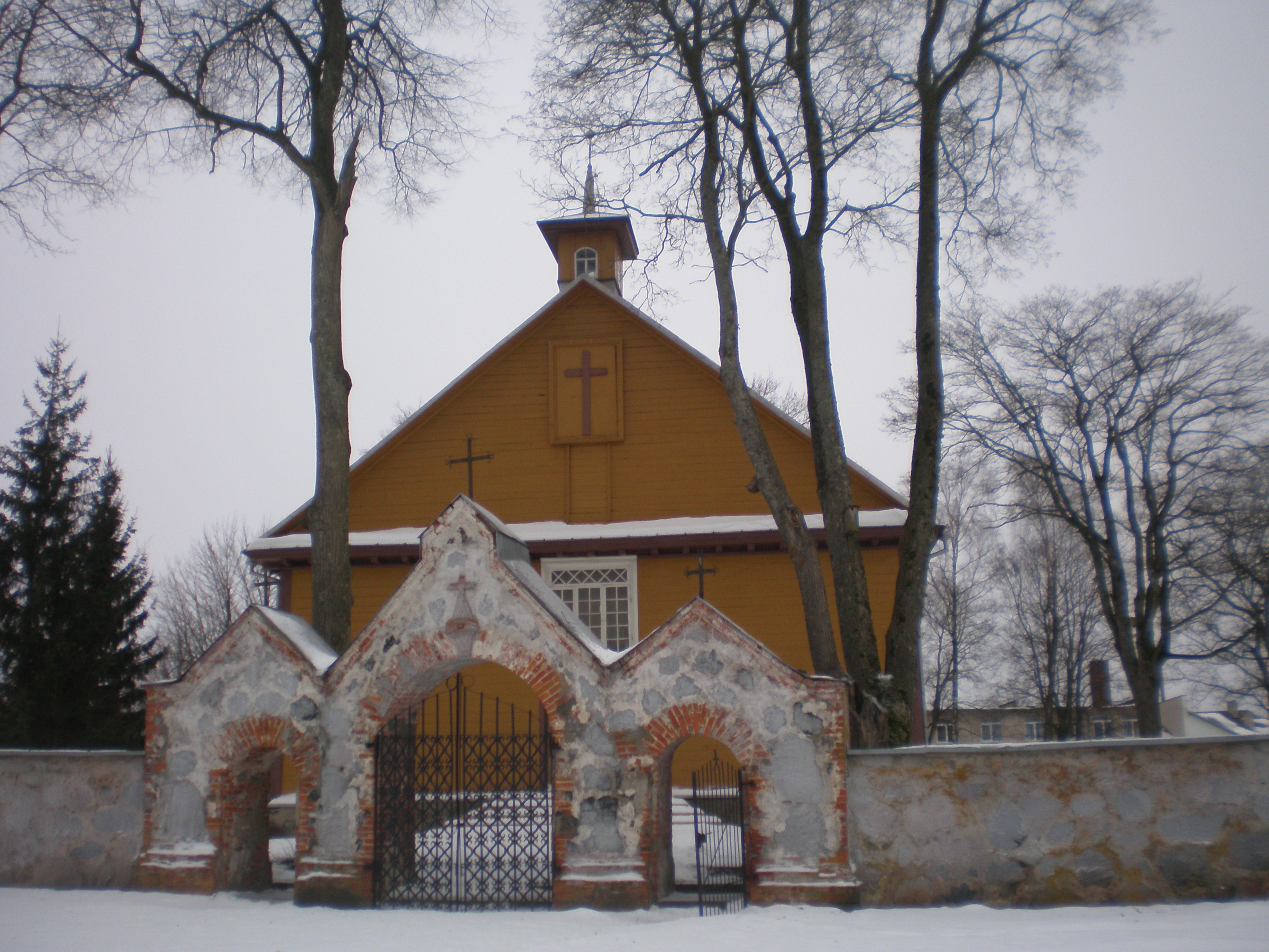 Bagaslaviskis church